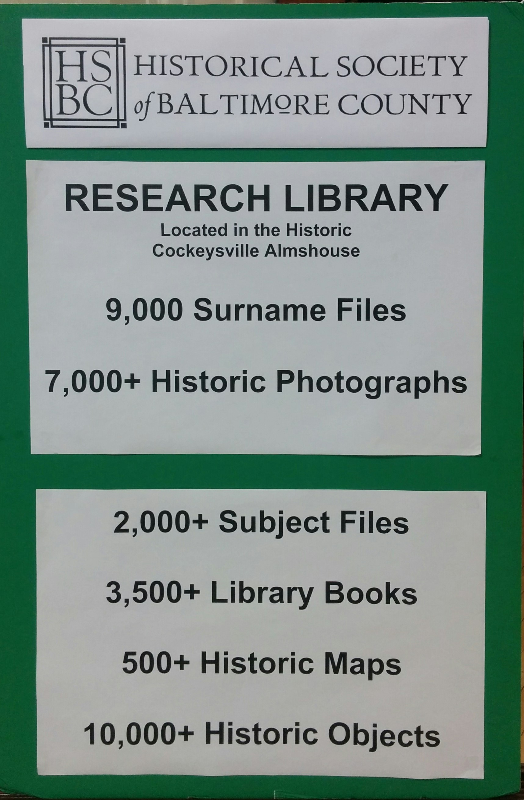 Photo of a poster listing the resources of the Historical Society of Baltimore County May 2017